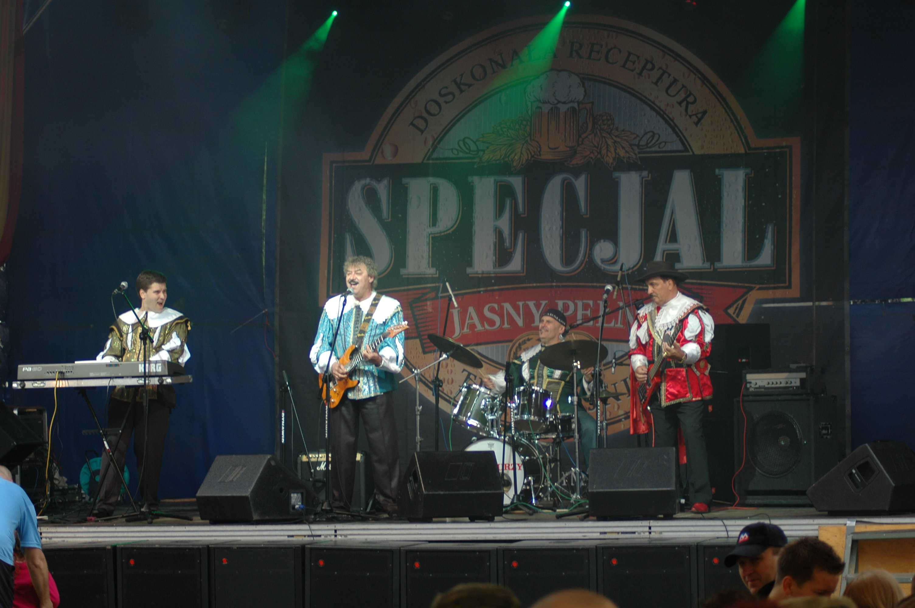 Trubadurzy, the Polish "big beat" band. "Specjal Jasny Pełny" billboard.